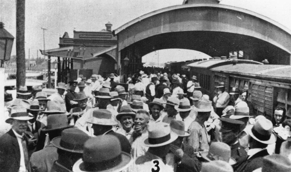 Opening of the Longreach to Winton railway line, 1929 Crowd of travellers at the Winton Railway Station.